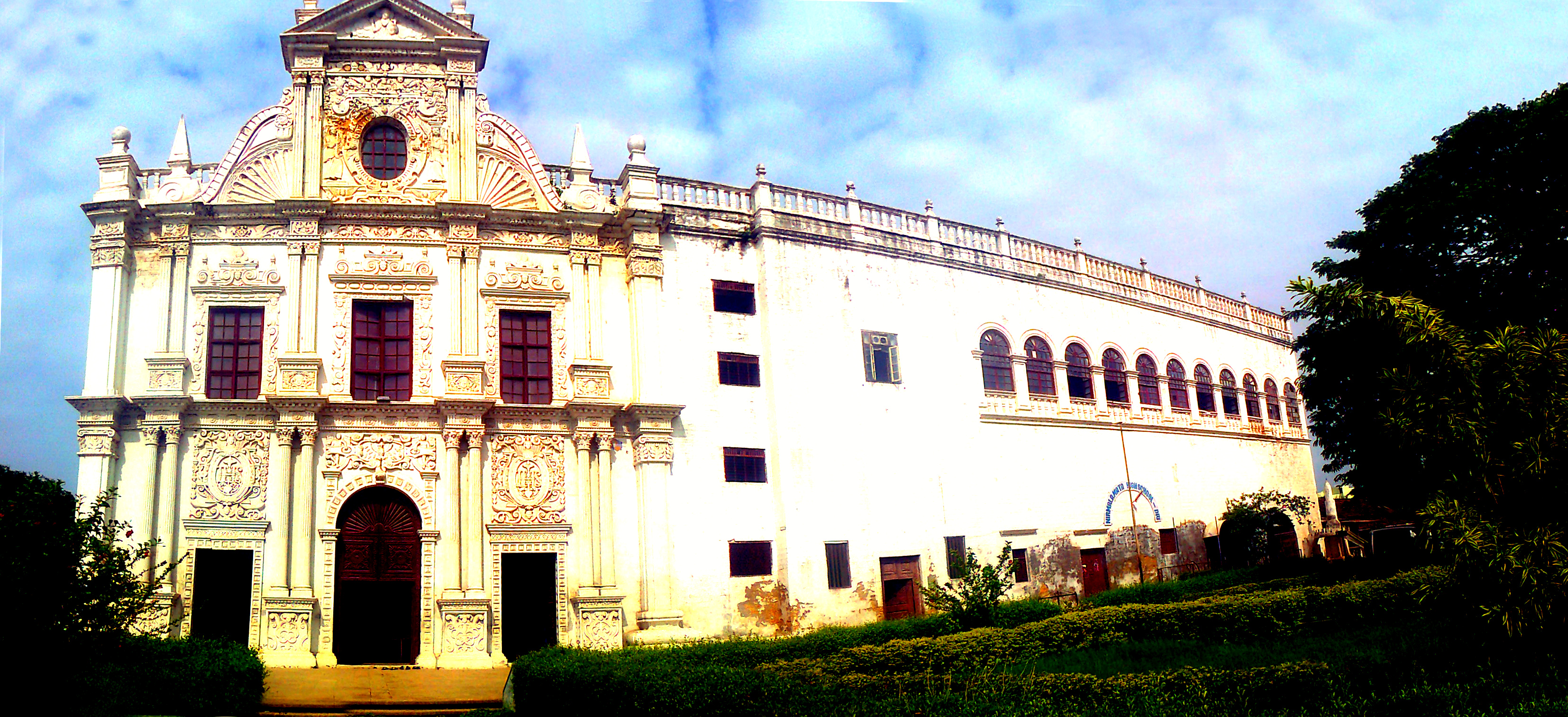 Grandness and perfection of the Indian Baroque. A special delight for me being an architecture student.